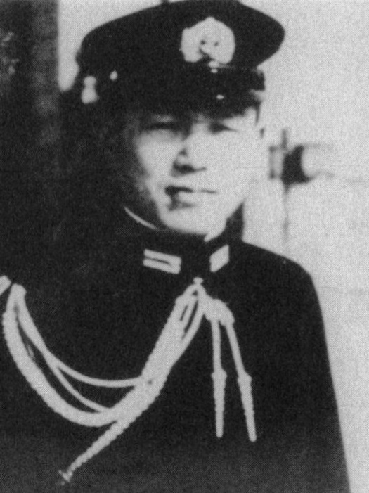 Chihaya Masataka is an Imperial Japanese Navy Commander